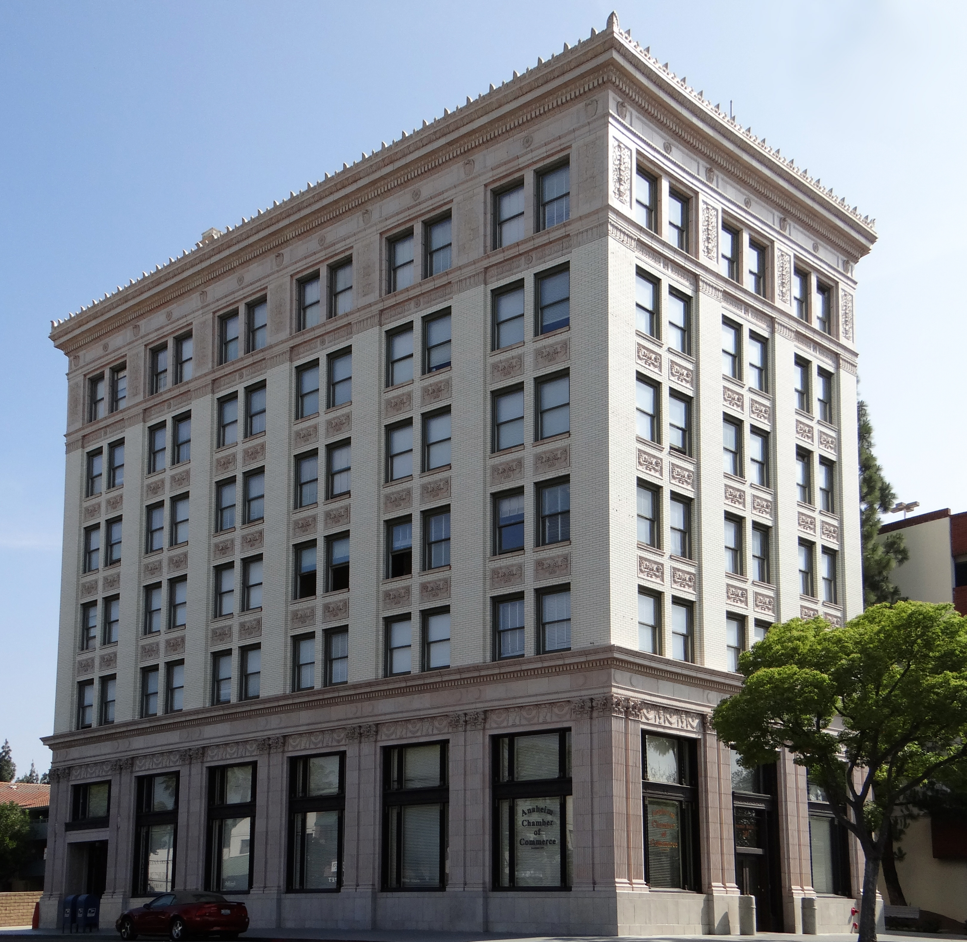 Samuel Kraemer Building, 76 S. Claudina Street, Anaheim, California. Listed on the National Register of Historic Places.